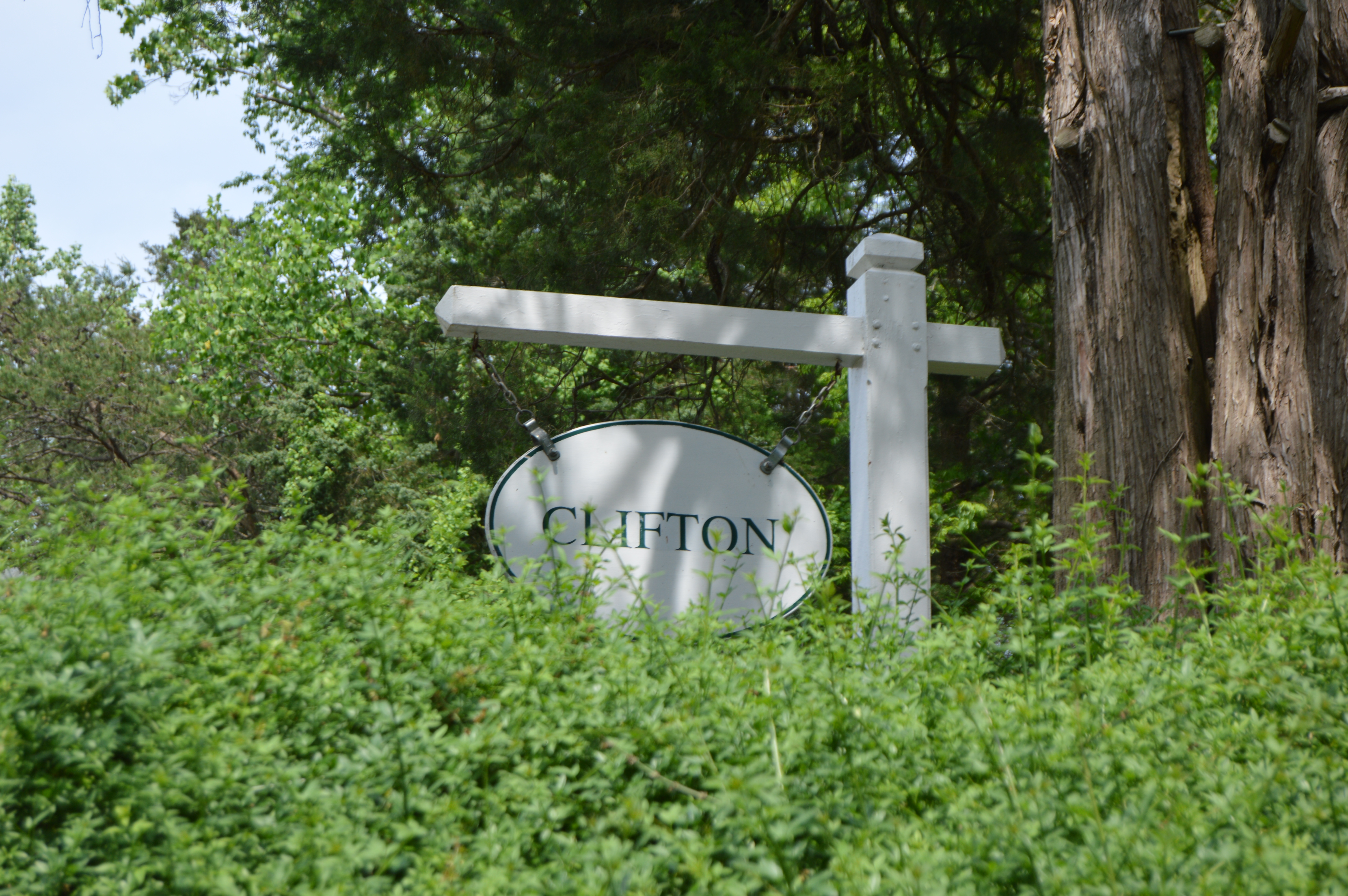 A sign by the driveway to the Clifton estate, located on Milton Road east of Charlottesville in Albemarle County, Virginia, United States. The estate is listed on the National Register of Historic Places.